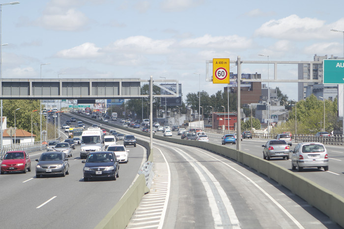 The Metrobus 25 de Mayo central lane on the motorway.